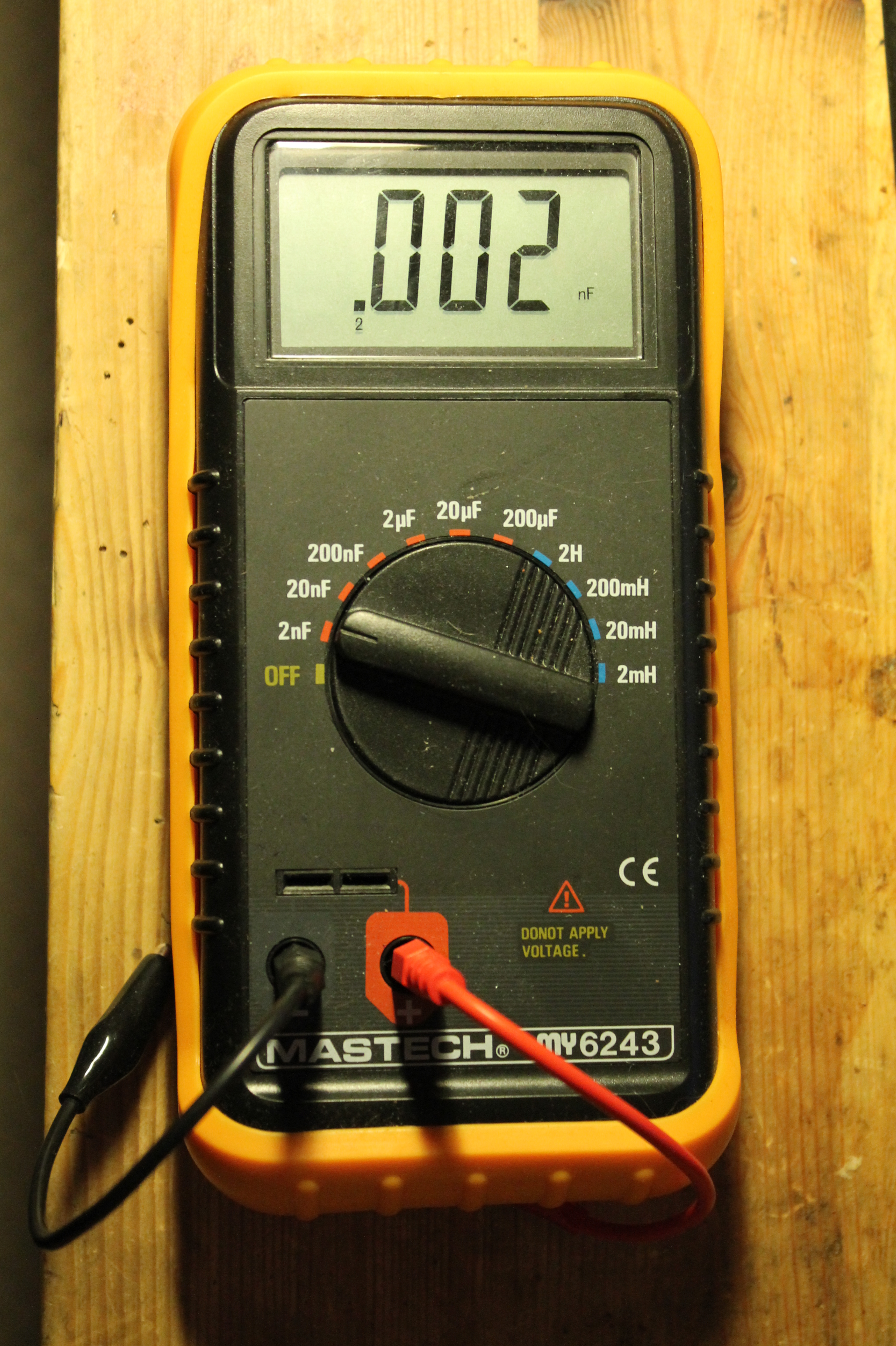 LC-meter